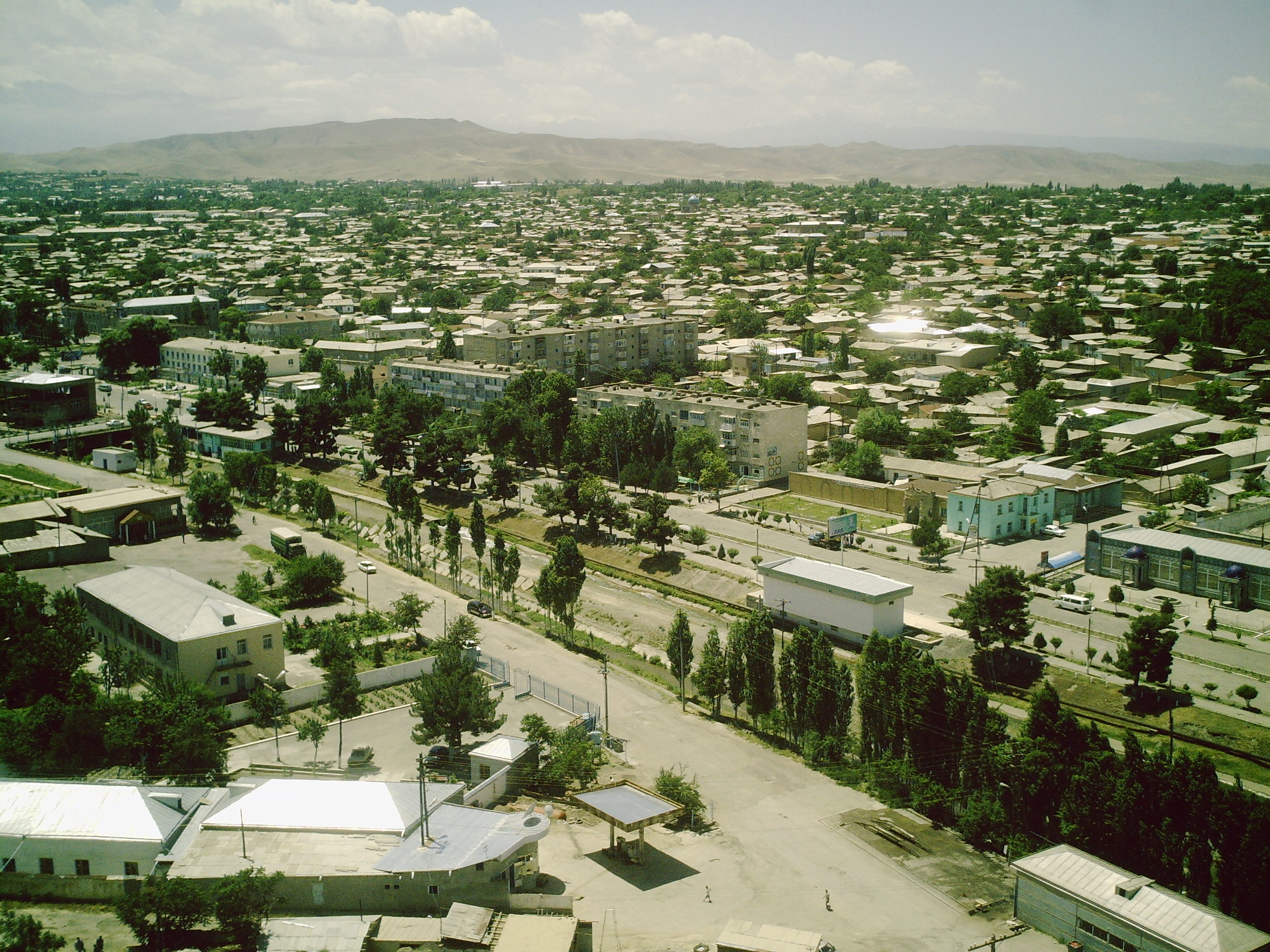 South-west view from Mug Teppe in Istarawshan. In the middle, far behind Kök Gumbaz is visible.